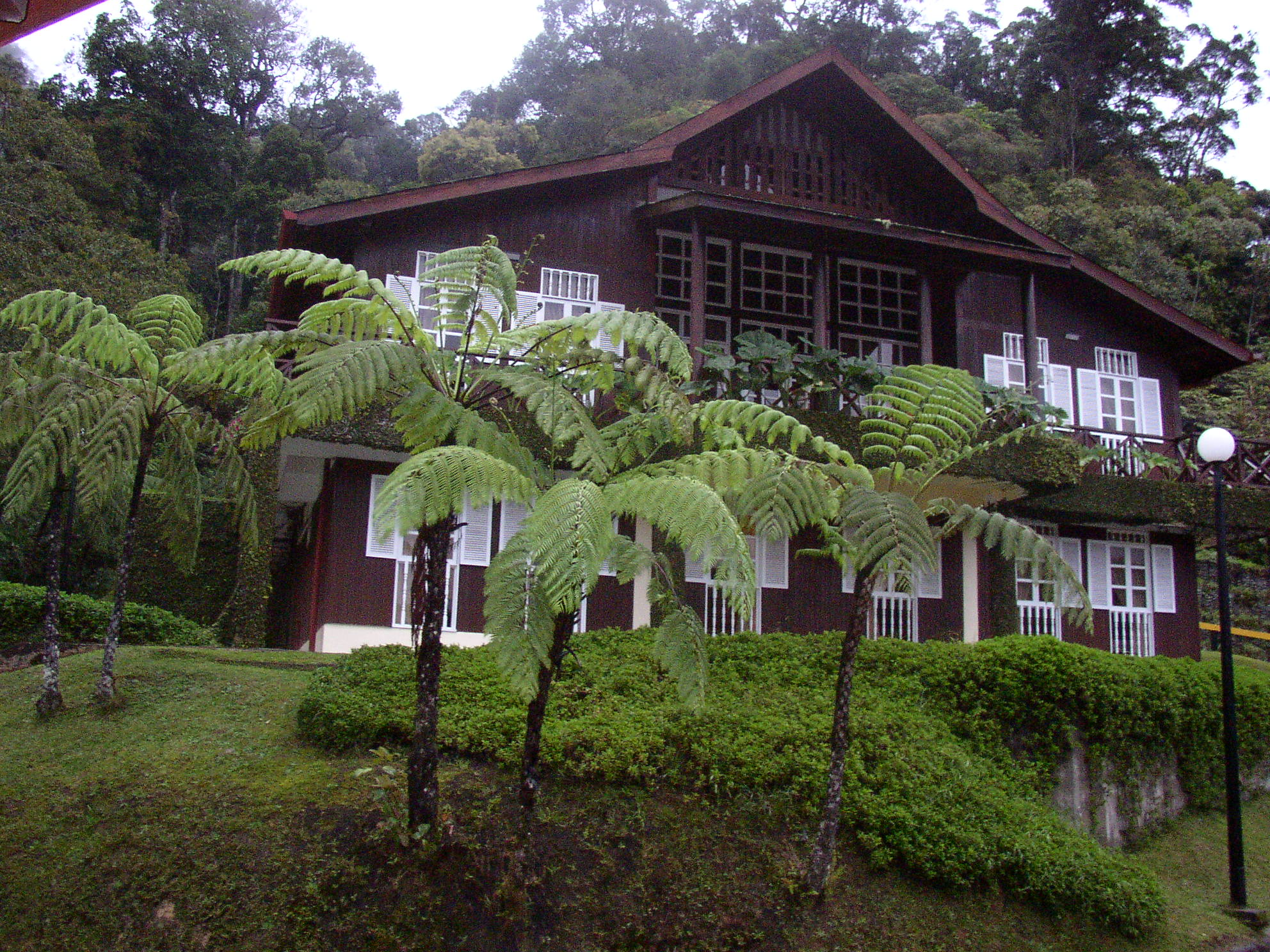 Rajah Lodge at Kinabalu National Park.